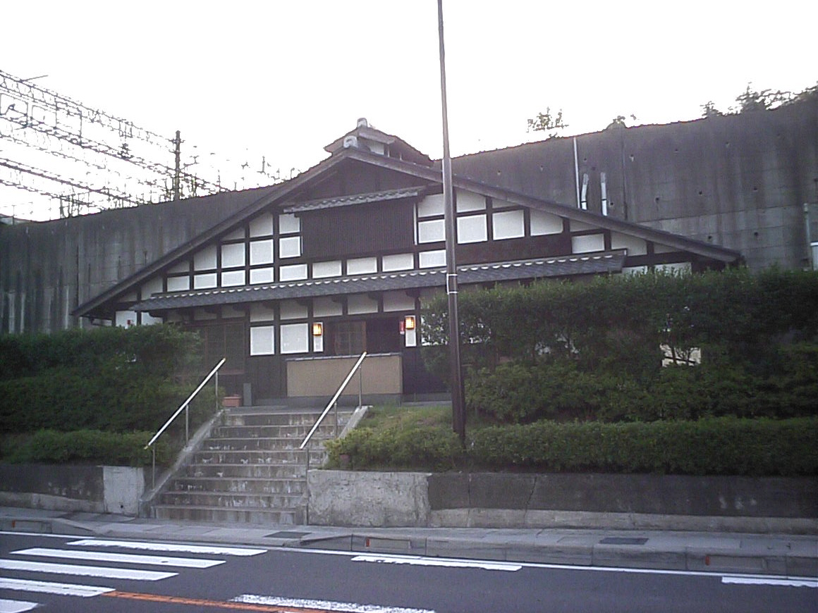 The building of Ōmi-shiotsu Station of JR West in Shiga prefecture, Japan.